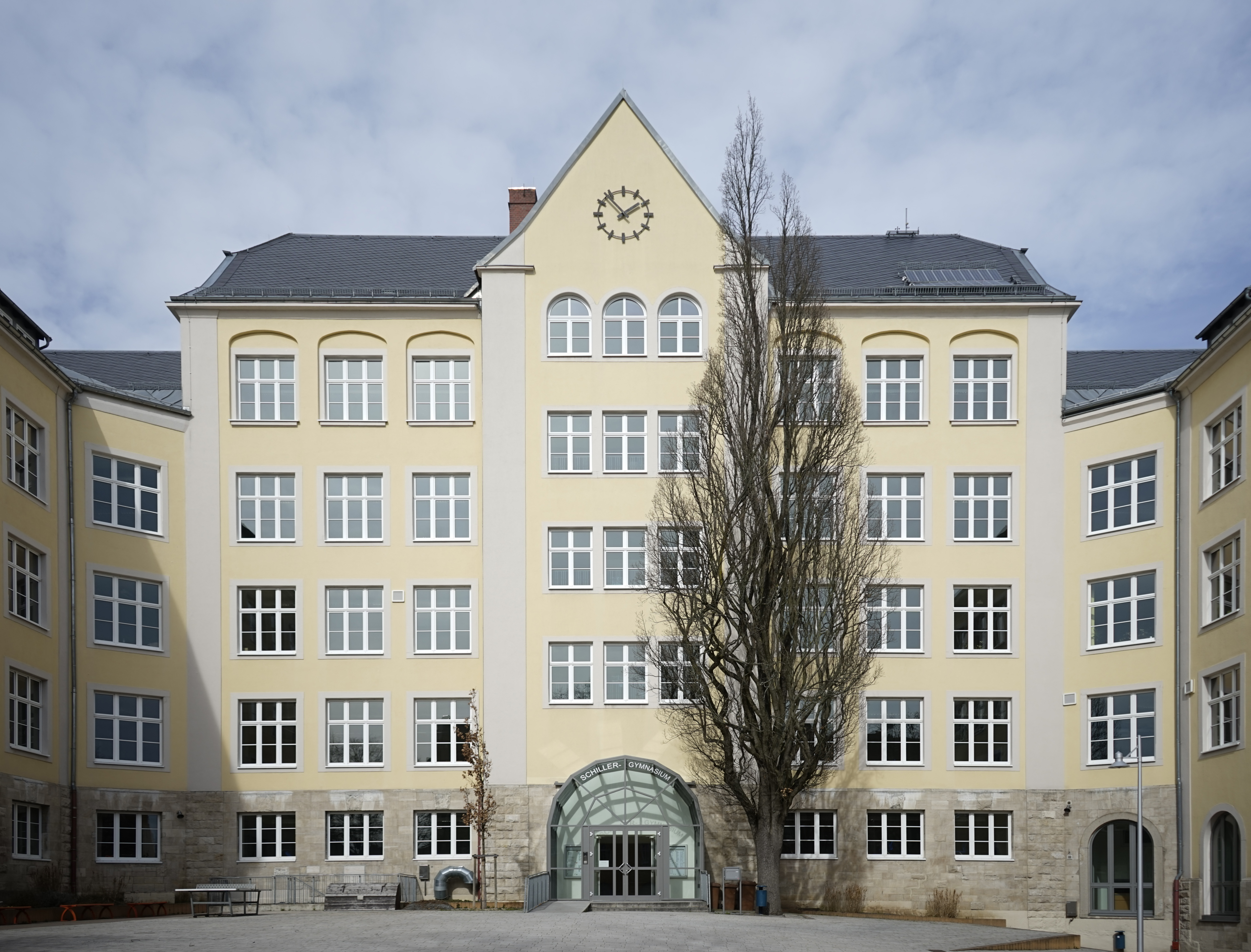 Schiller high school in Hof, photographed via full frame camera. The view orientation is approximately North-North-East (View onto south façade).